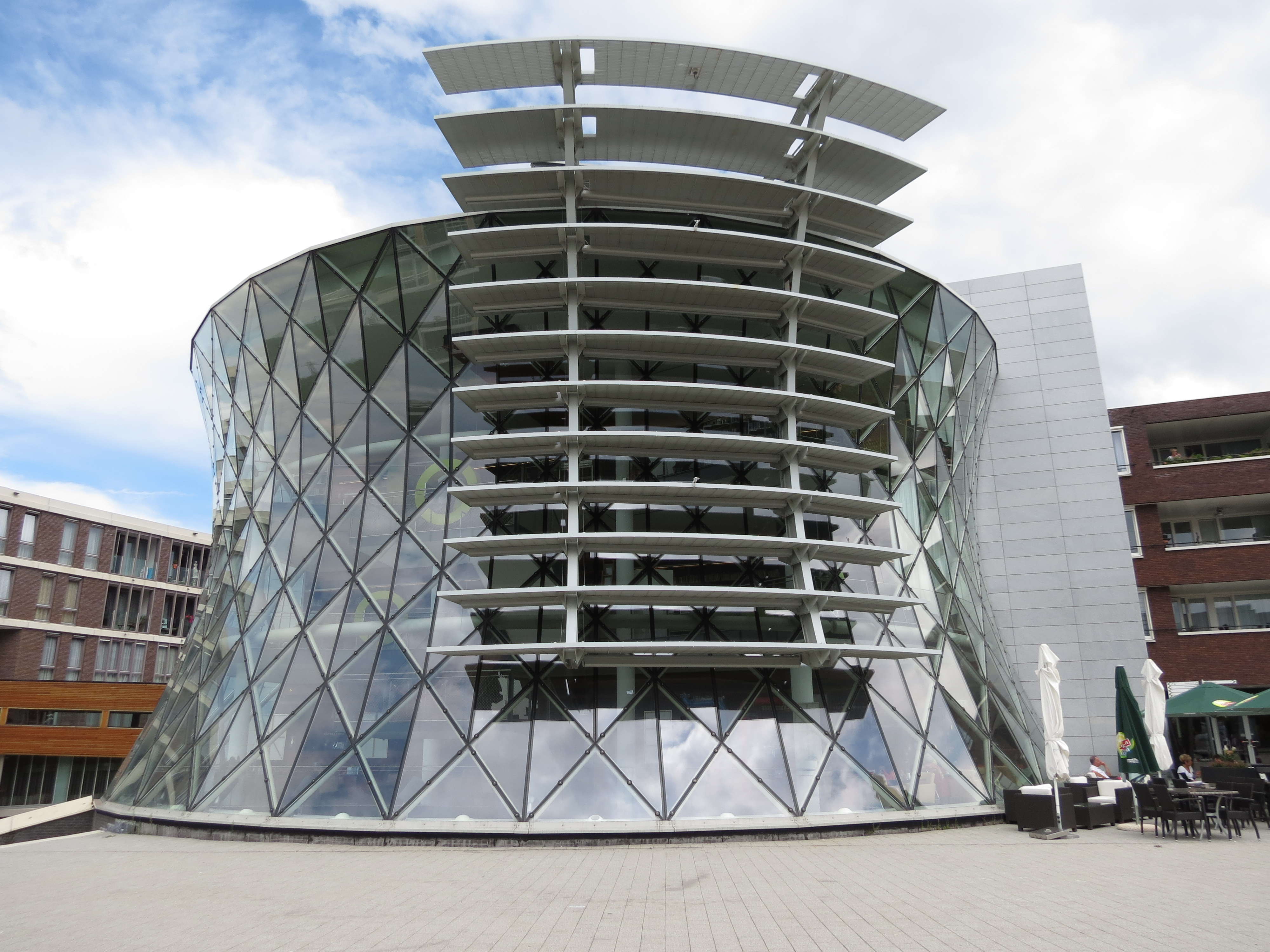 Public library and community centre Gen Coel Heerlerheide, Heerlen, The Netherlands